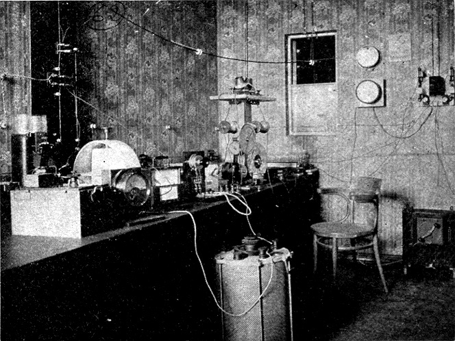 Photograph of Ernst Ruhmer radiotelephone transmitter circa 1905